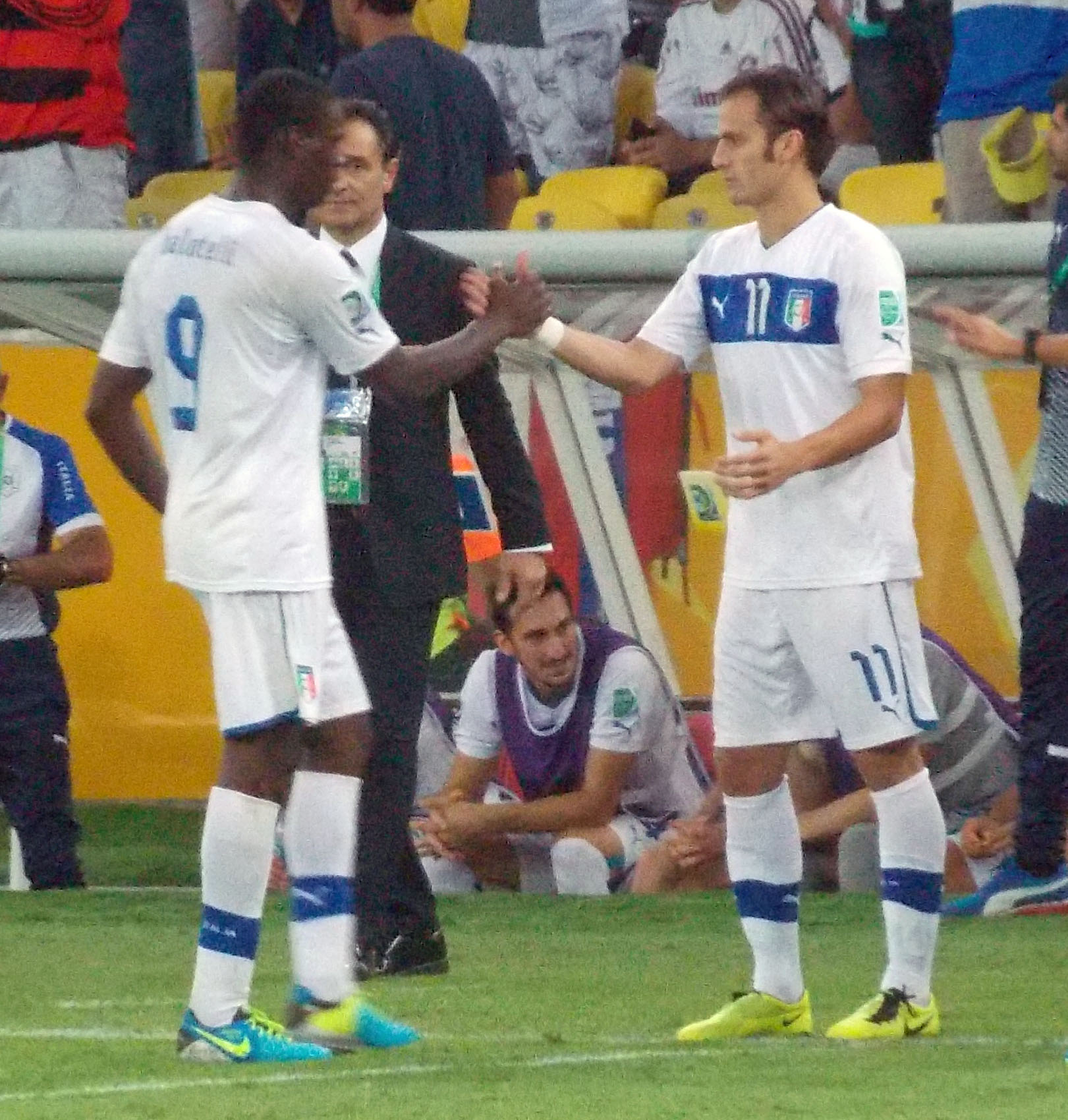 Confederations Cup 2013, Maracanã Stadium, Mexico 1 x 2 Italy: Mario Balotelli (left) and Alberto Gilardino (right).